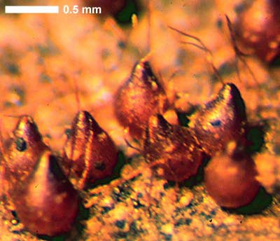 Ascocarp